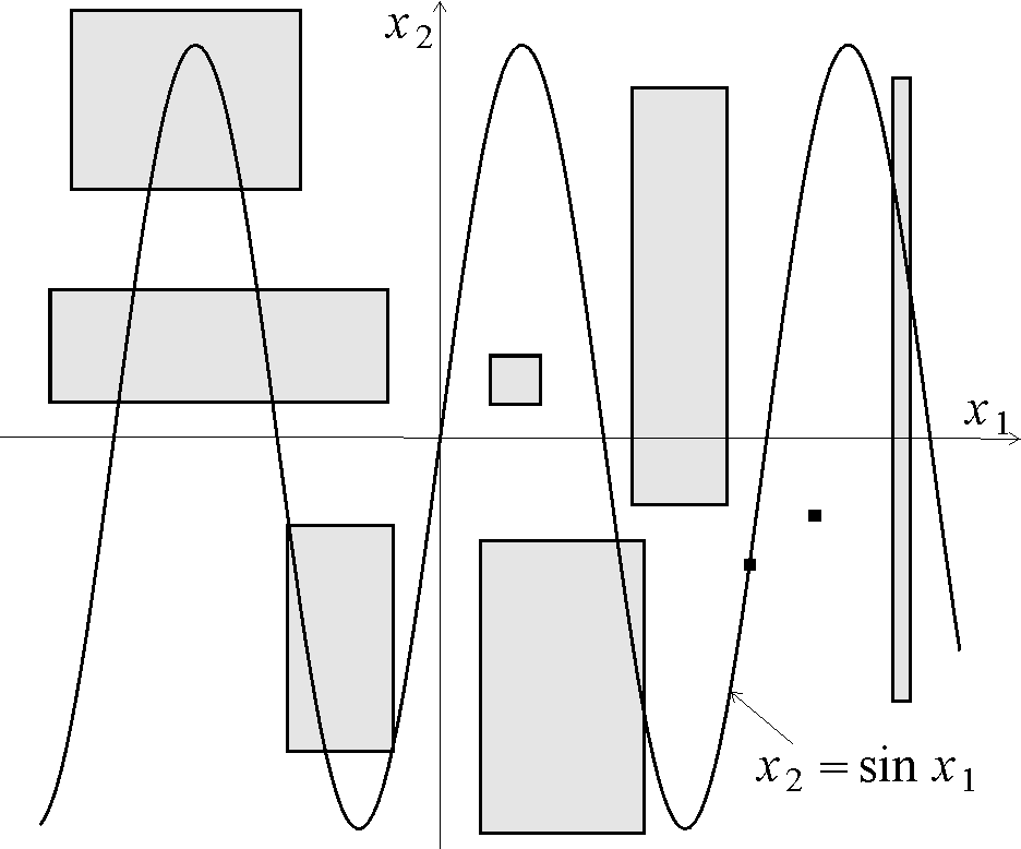 Several boxes before the contractions